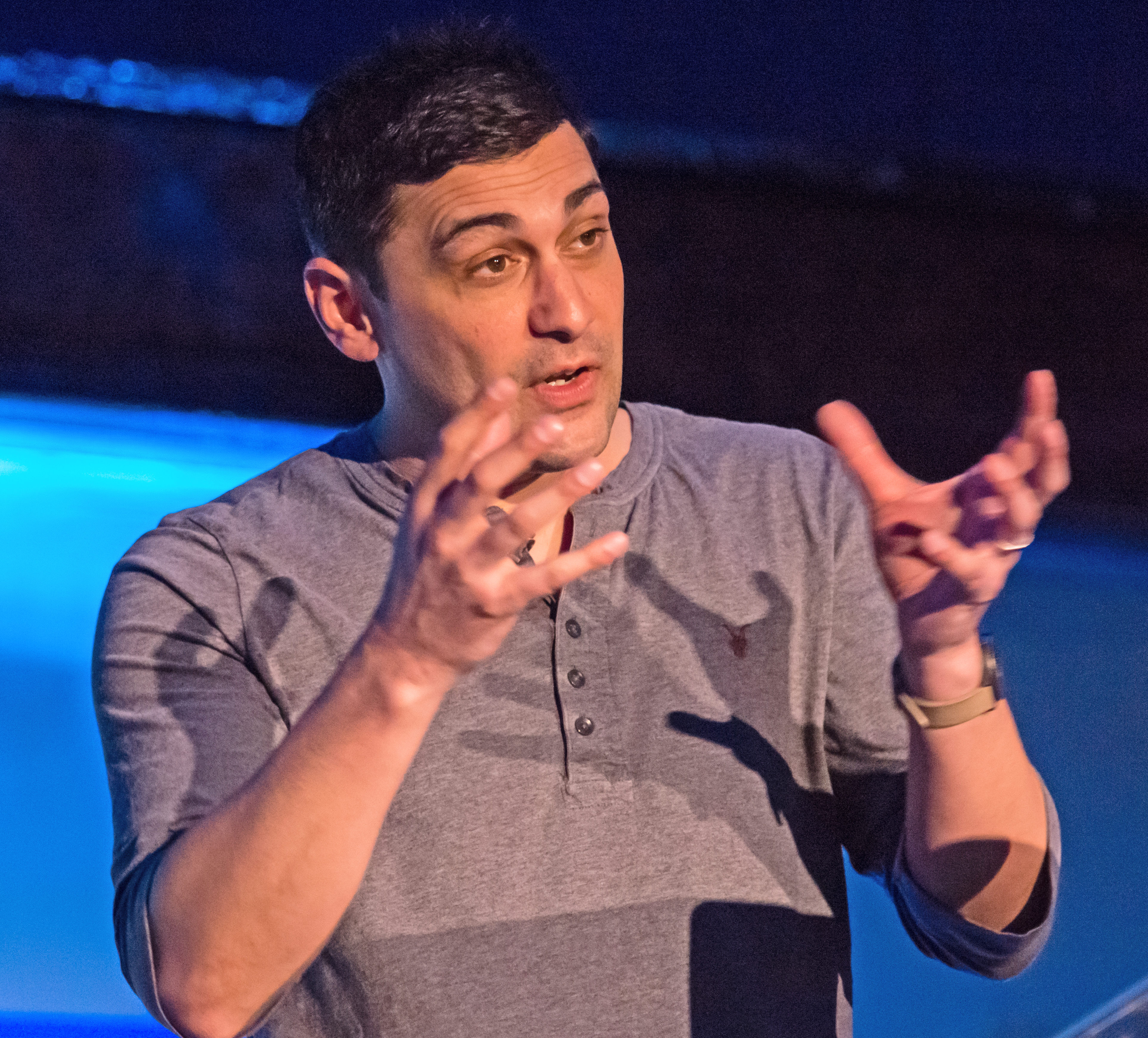 Adam Rutherford at QEDcon 2013.